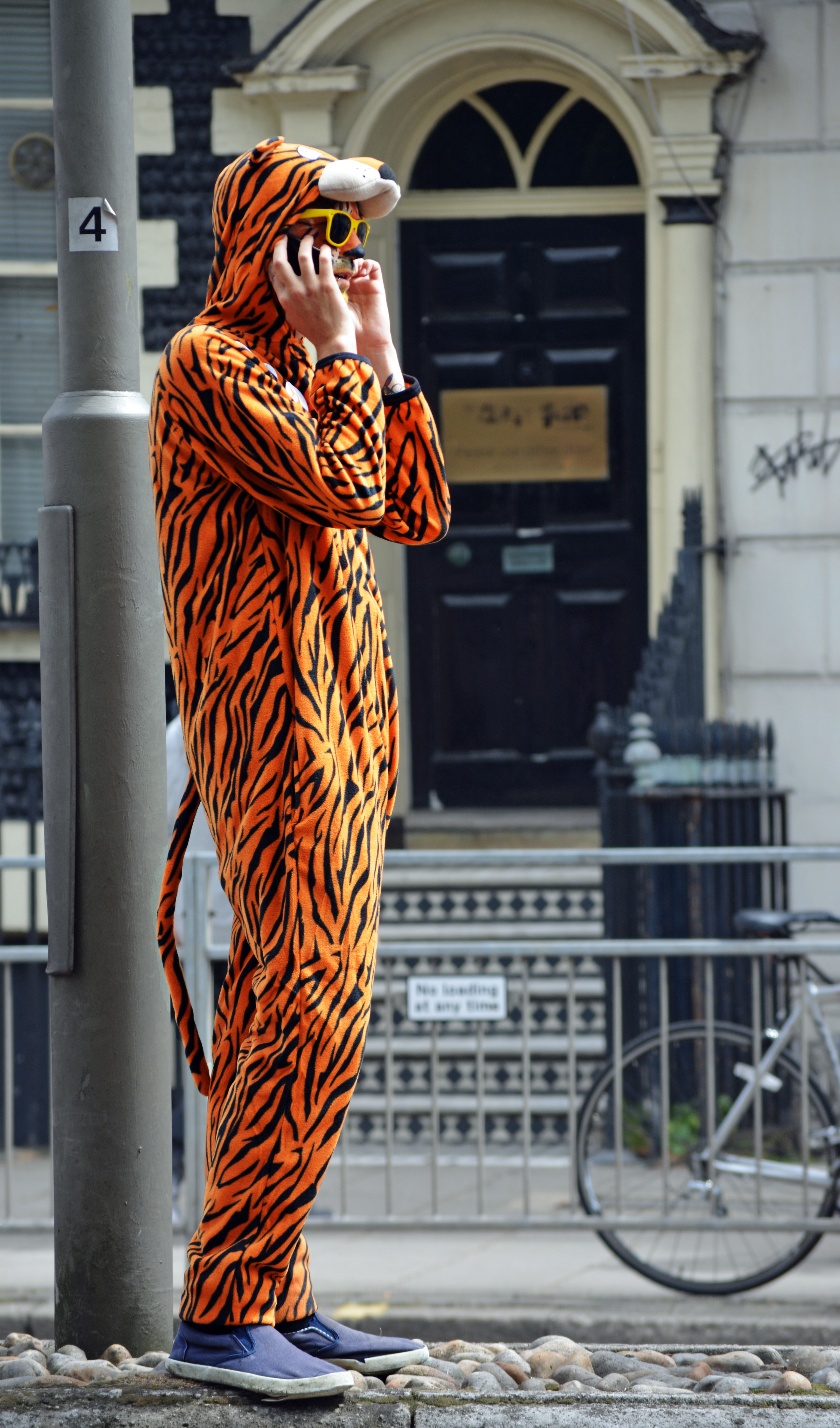 Brighton Pride 2013